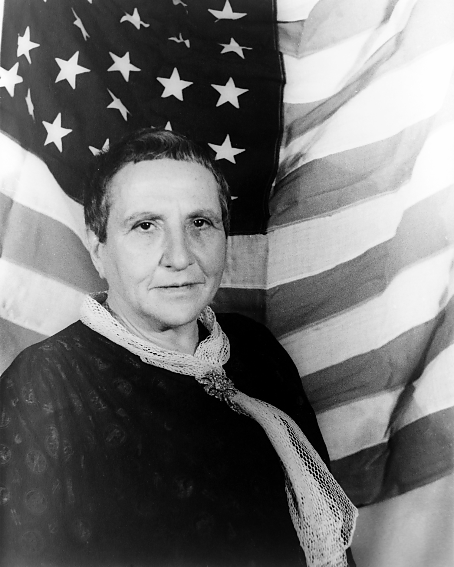 Portrait of Gertrude Stein, with American flag as backdrop